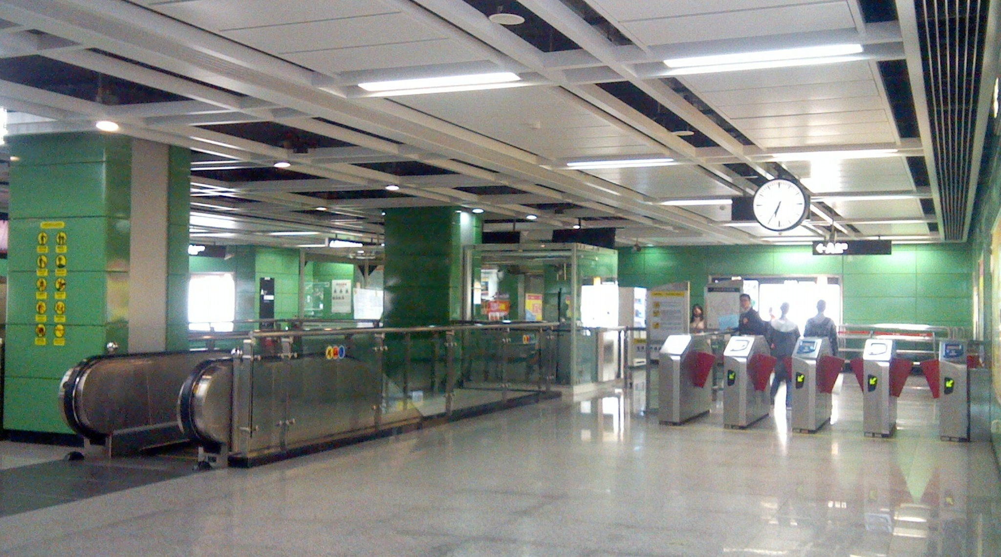 永泰车站站厅